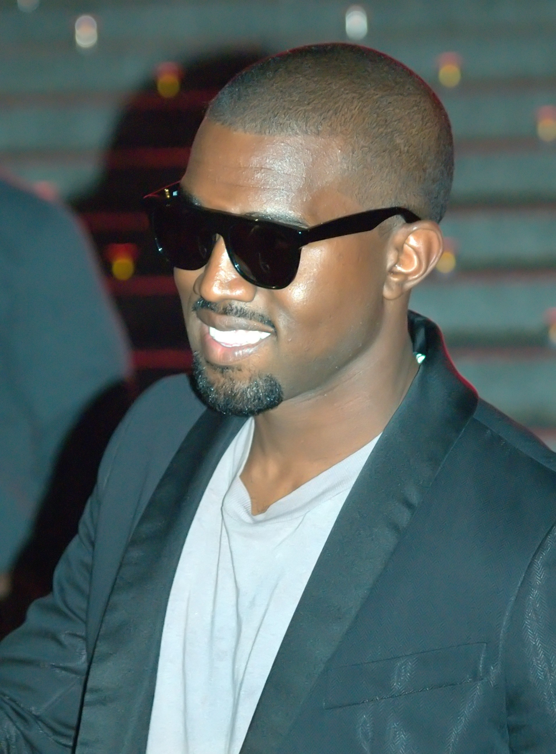 Kanye West at the Vanity Fair kickoff part for the 2009 Tribeca Film Festival. Photographer's blog post about this event and photo.